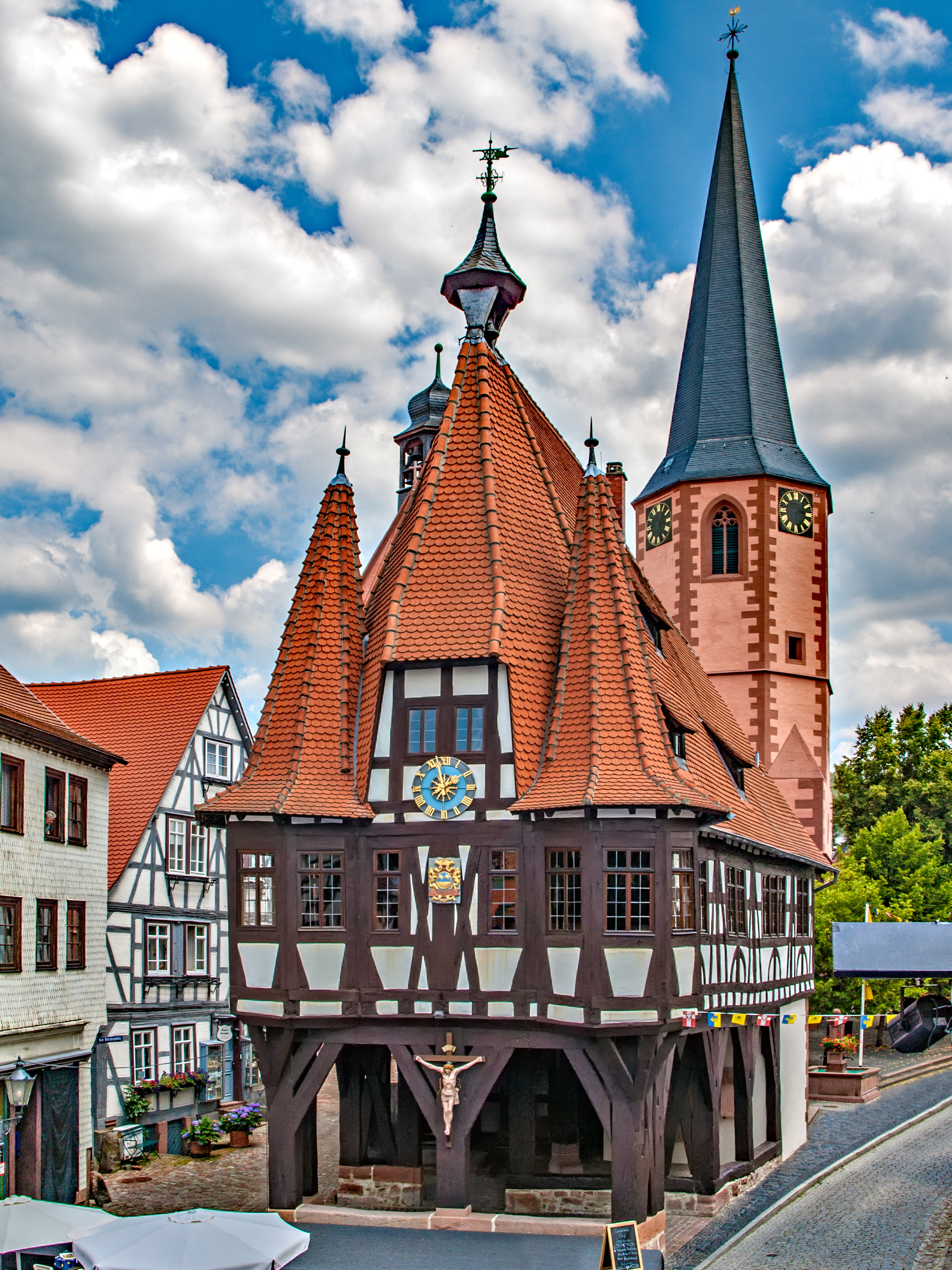 Town Hall in Michelstadt, Odenwald, Germany